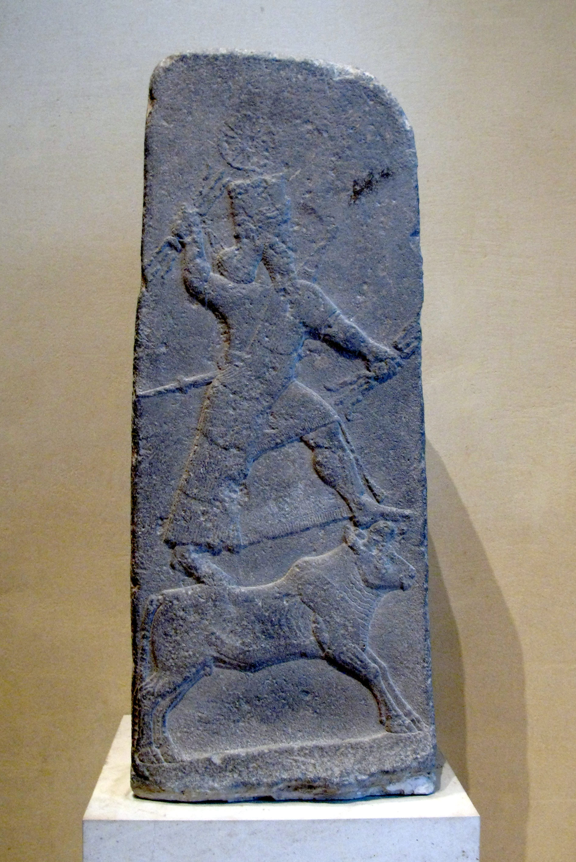 ArtistUnknownDescription Stele of god Adad on a bull with a thunderbolt in hand [1] Reign of Teglat-phalasar III, circa 744 - 727 BC Arslan Tash Basalt Dimensions1.36 m. high, 0.54 m. wide, 0.42 m deepCurrent location (Inventory)Louvre Museum Native nameMusée du LouvreLocationParisCoordinates48° 51′ 37″ N, 2° 20′ 15″ E Established1793Website control : Q19675 VIAF: 257711507 ISNI: 0000 0001 2260 177X ULAN: 500125189 LCCN: n80020283 NLA: 35912436 WorldCat Richelieu Rez-de-chaussée Mésopotamie - Syrie du Nord. Assyrie : Til Barsip, Arslan Tash, Nimrud, Ninive Salle 6Accession numberAO 13092Credit lineFound by F. Thureau-Dangin and A. Barrois in 1928Source/PhotographerRama Stele of god Adad on a bull with a thunderbolt in hand [1] Reign of Teglat-phalasar III, circa 744 - 727 BC Arslan Tash Basalt